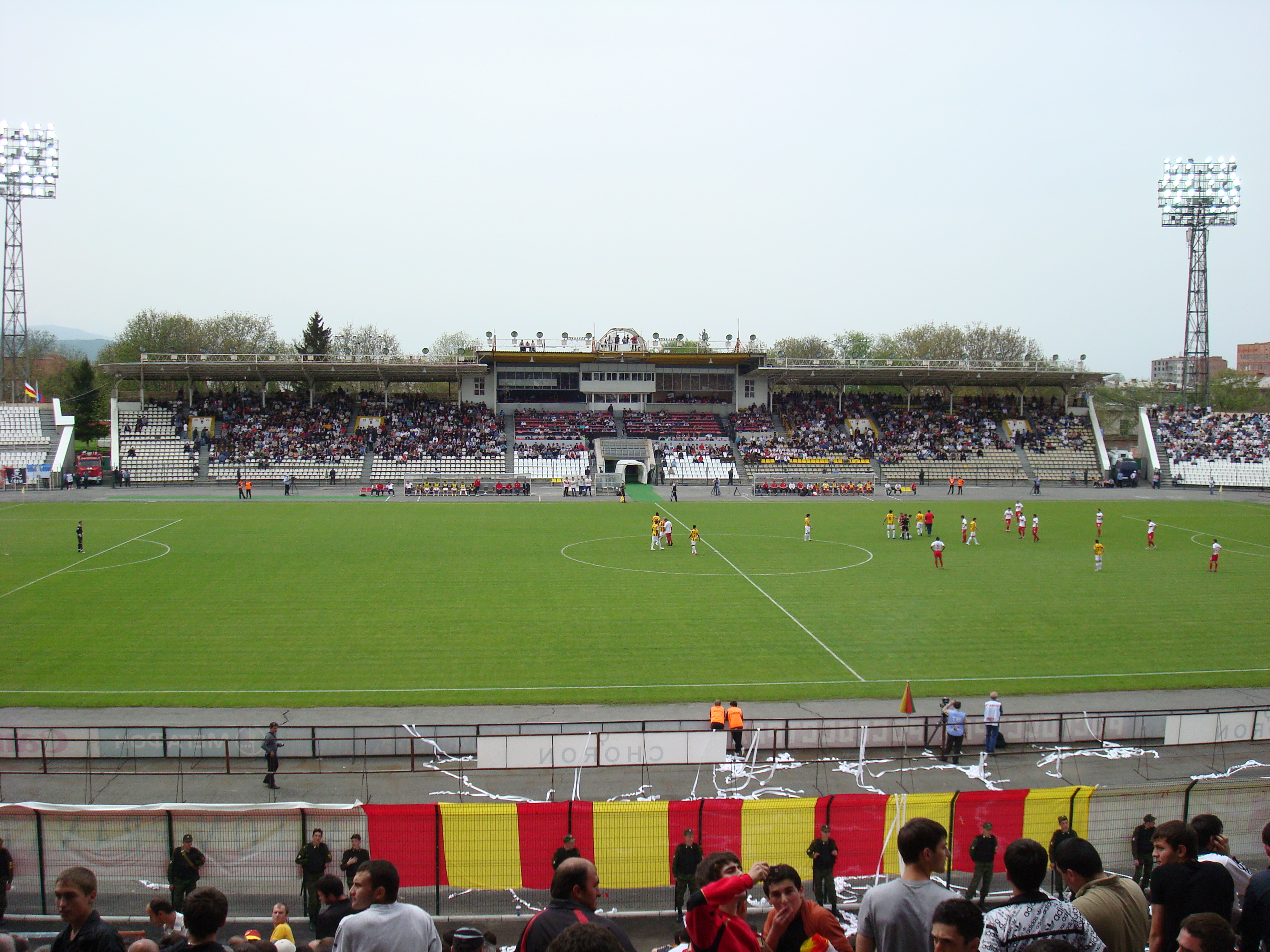 Stadium "Spartak" in Vladikavkaz, Northern Osetia